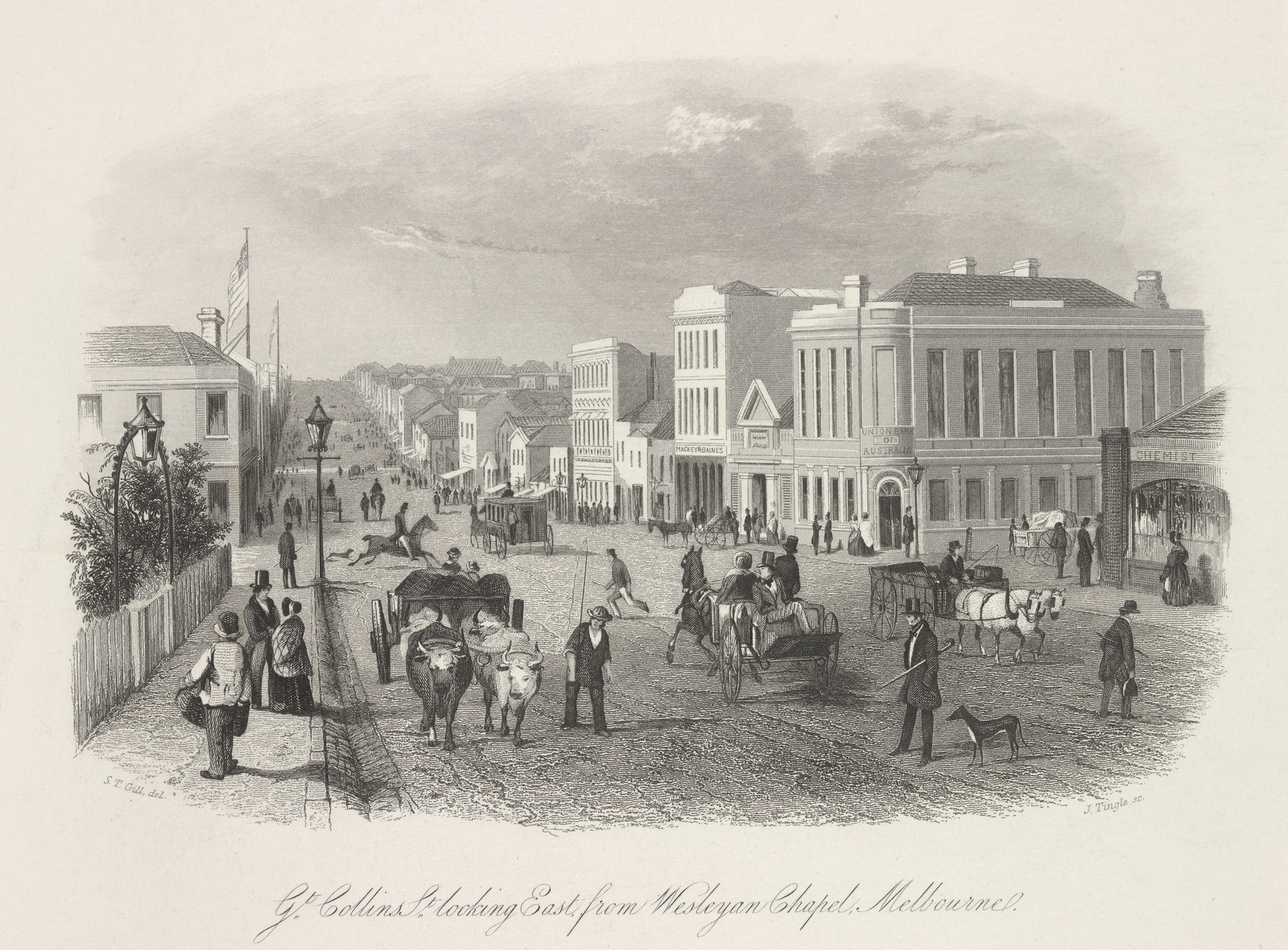 Engraved below image l.l.: S.T.Gill, del. Engraved below image l.r.: J. Tingle, sc. Title engraved below image: Gt. Collins St. looking East from Weslayan Chapel, Melbourne. Engraved below title: Published by Sands & Kenny, Melbourne & Sydney, 1857. Plate from Victoria illustrated / S.T. Gill.